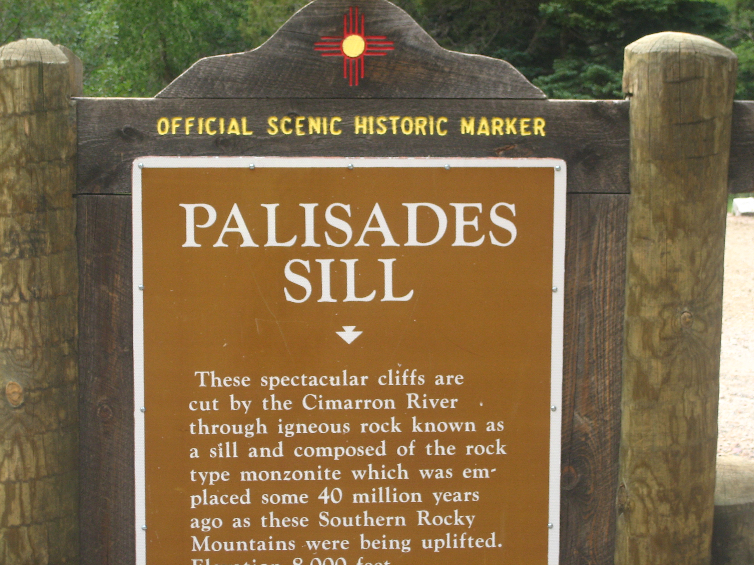 I took photo in July 2008.Billy Hathorn (talk) 03:47, 5 July 2009 (UTC)